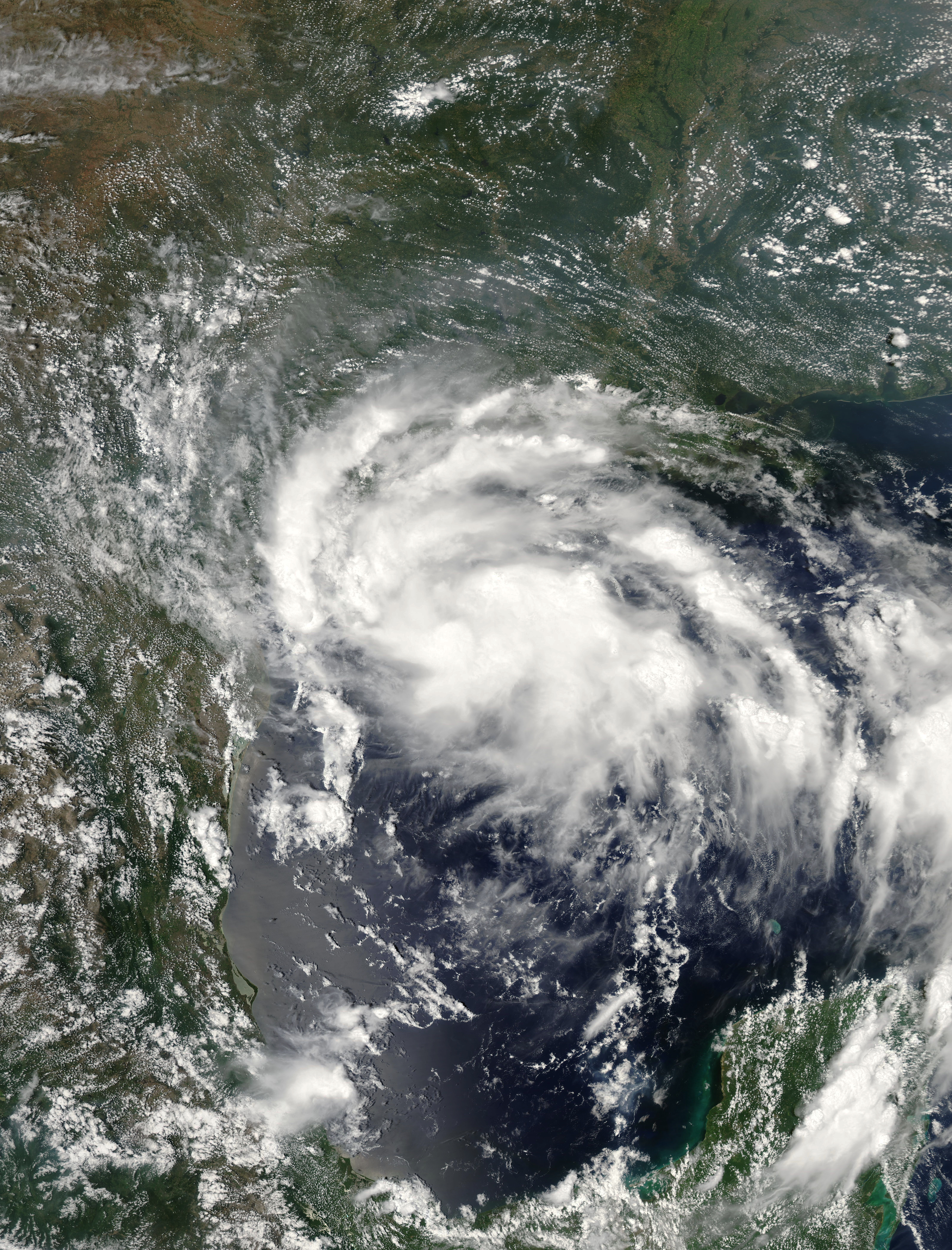 Tropical Storm Erin on August 15, 2007.